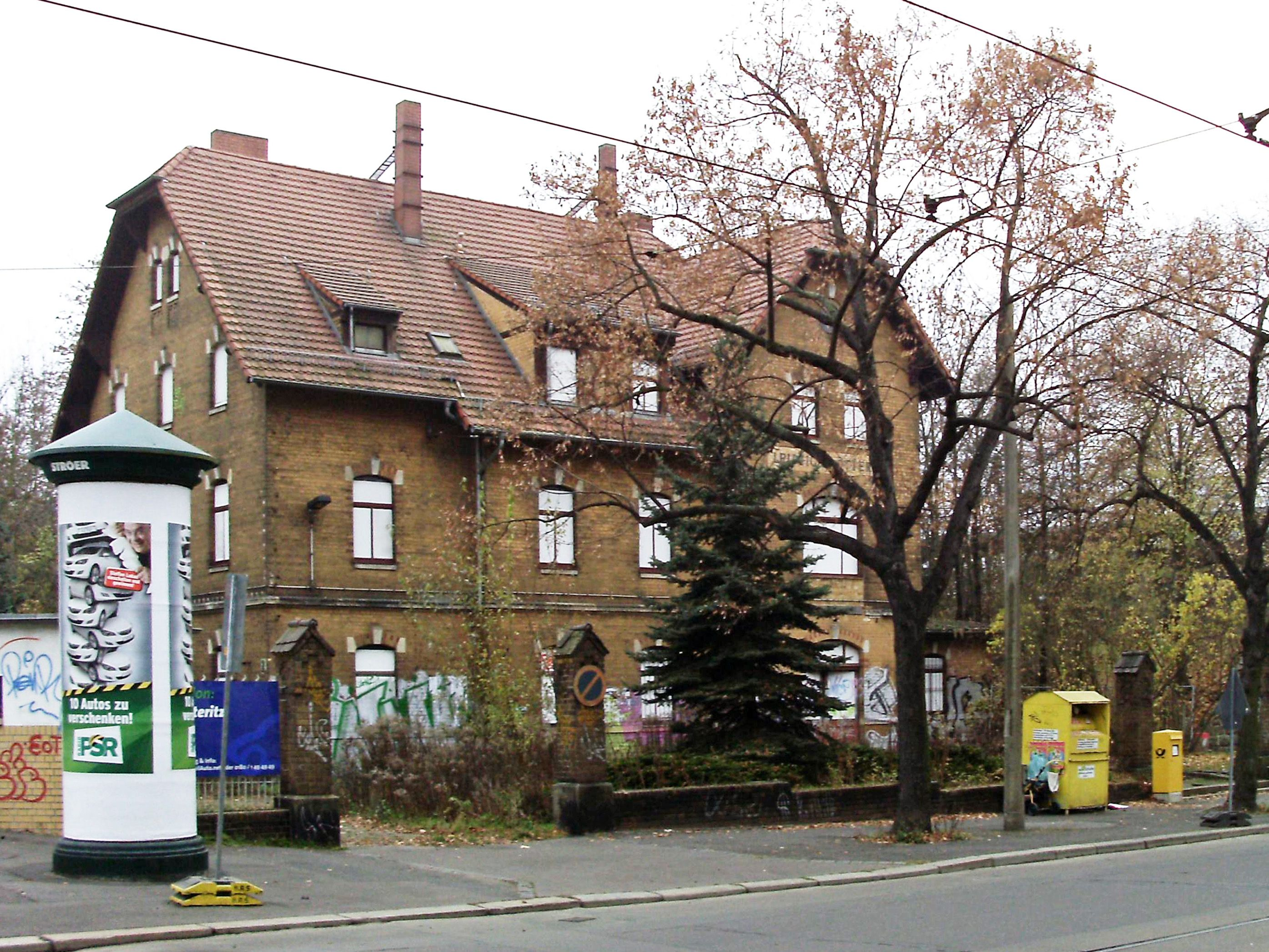 Station building of Leipzig-Stötteritz train station